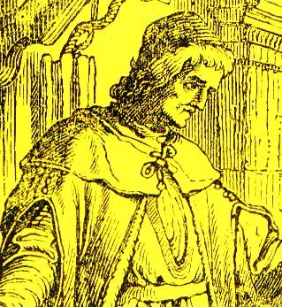 Georg Conrad Jung (1612 Rothenburg - 1691 Kitzingen) - Kartograf, Maler, Drucker